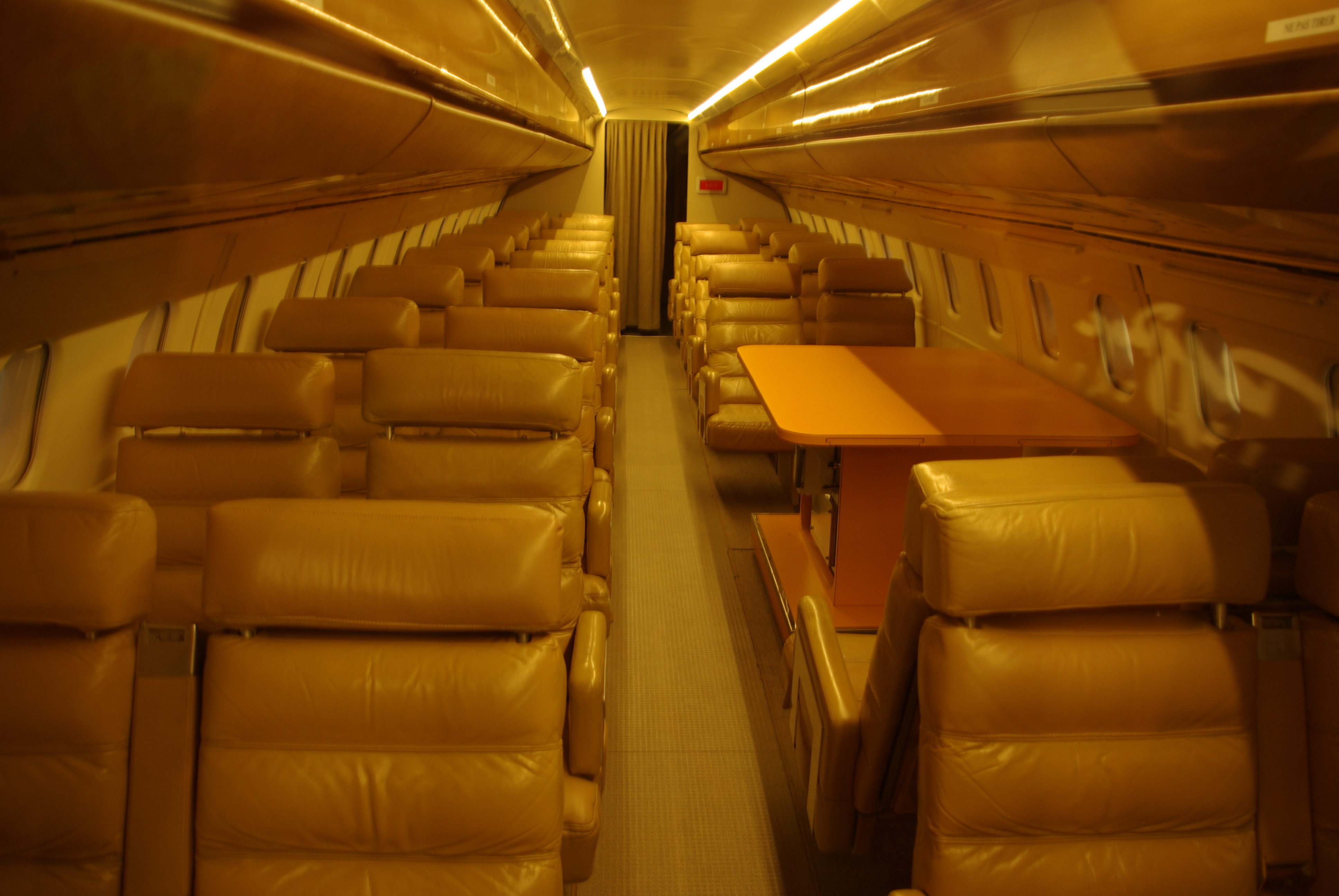 Cabin presidential furnishing of the Concorde "F-WTSB".